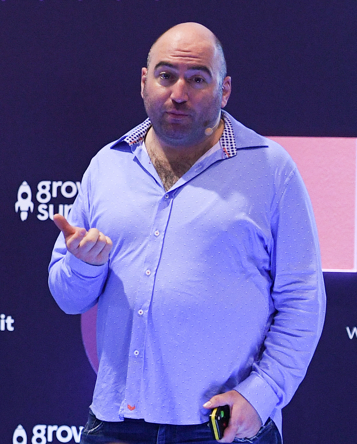 8 November 2018; Toby Russell, Co-CEO, Shift, left, and George Arison, Founder and Co-CEO, Shift on Growth Summit Stage during day three of Web Summit 2018 at the Altice Arena in Lisbon, Portugal. Photo by Eóin Noonan/Web Summit via Sportsfile